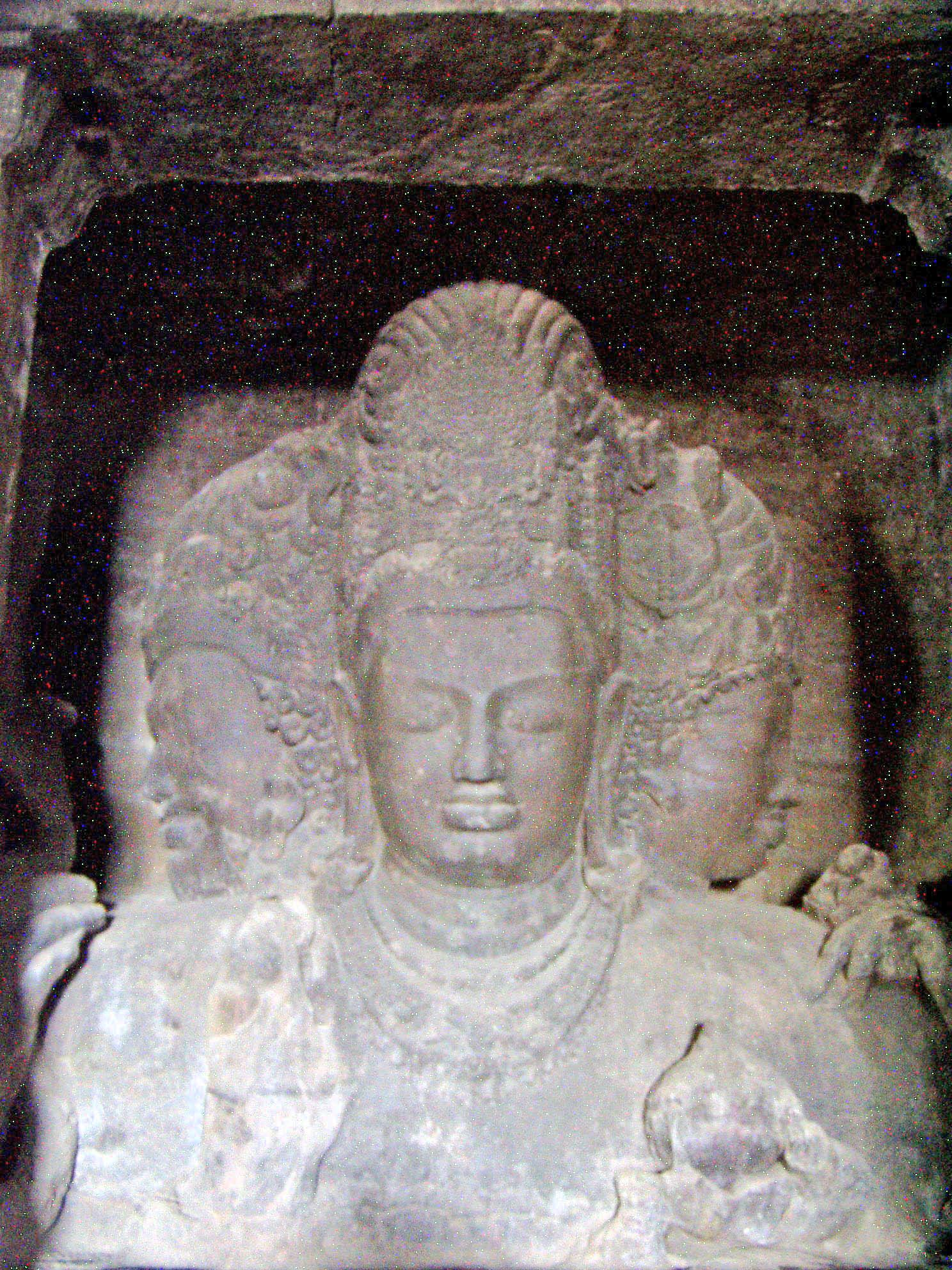 Mahesamurti is the most popular carving in the Elephanta caves complex. It is 18 feet high, and depicts fully manifest form of Lord Siva. To our left is the face of Bhairava - face of destruction, and to the right is the feminine face of Siva called Vamadeva. The left hand holds a lotus and the right is damaged.